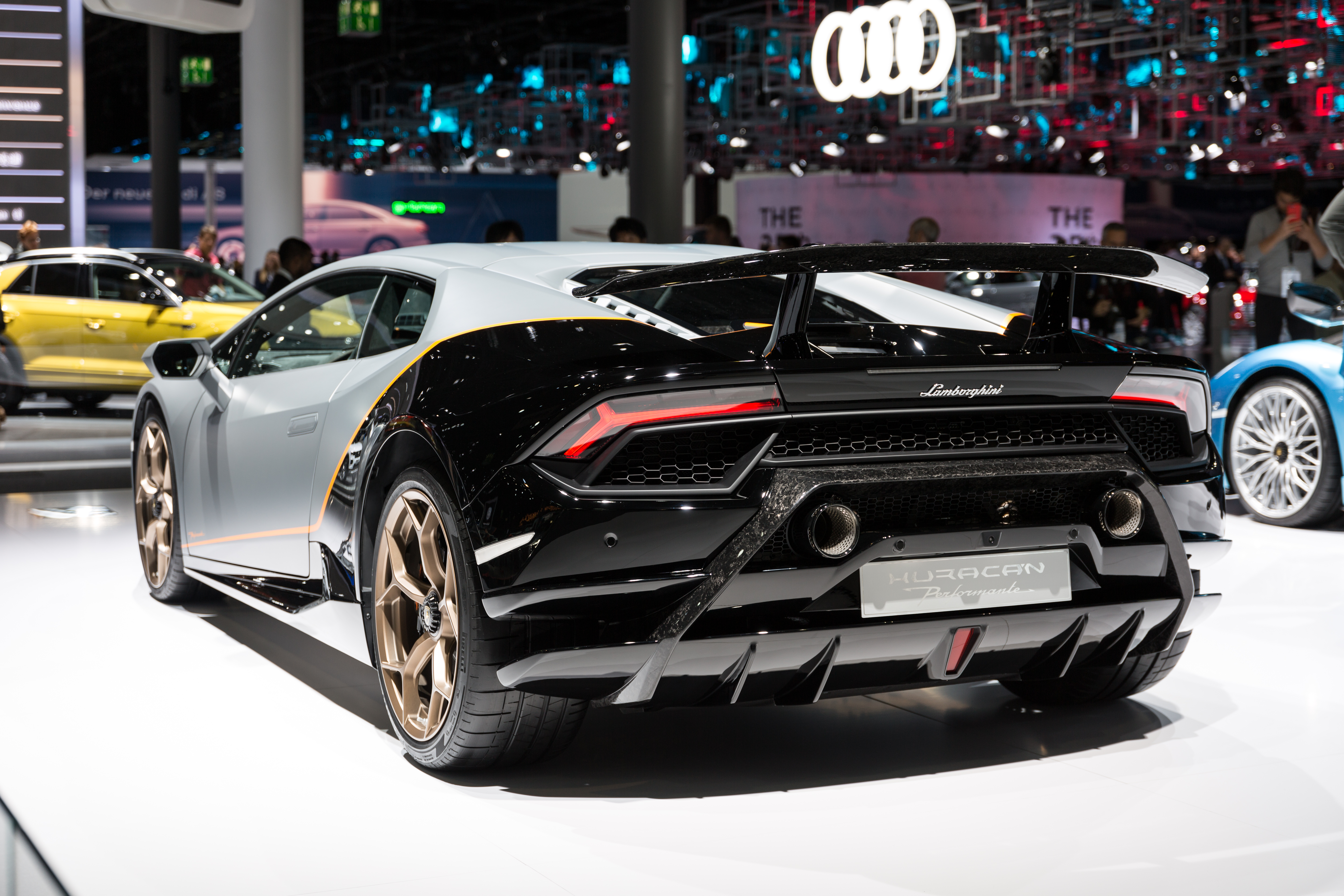 Lamborghini Huracán Performante, IAA 2017